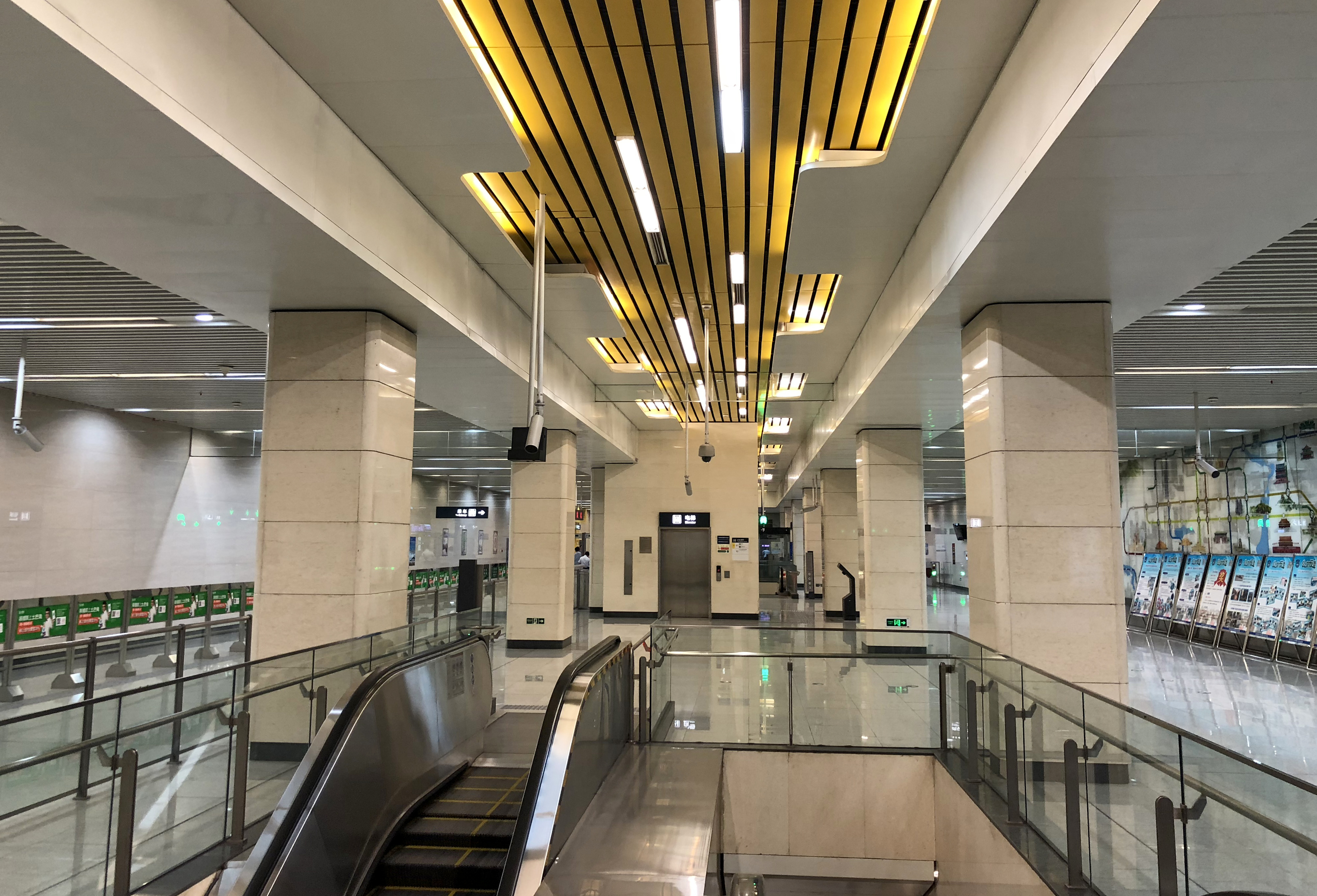 The yellow belt on the ceiling symbolizes Yellow River, while the surrounding curves stand for river banks.